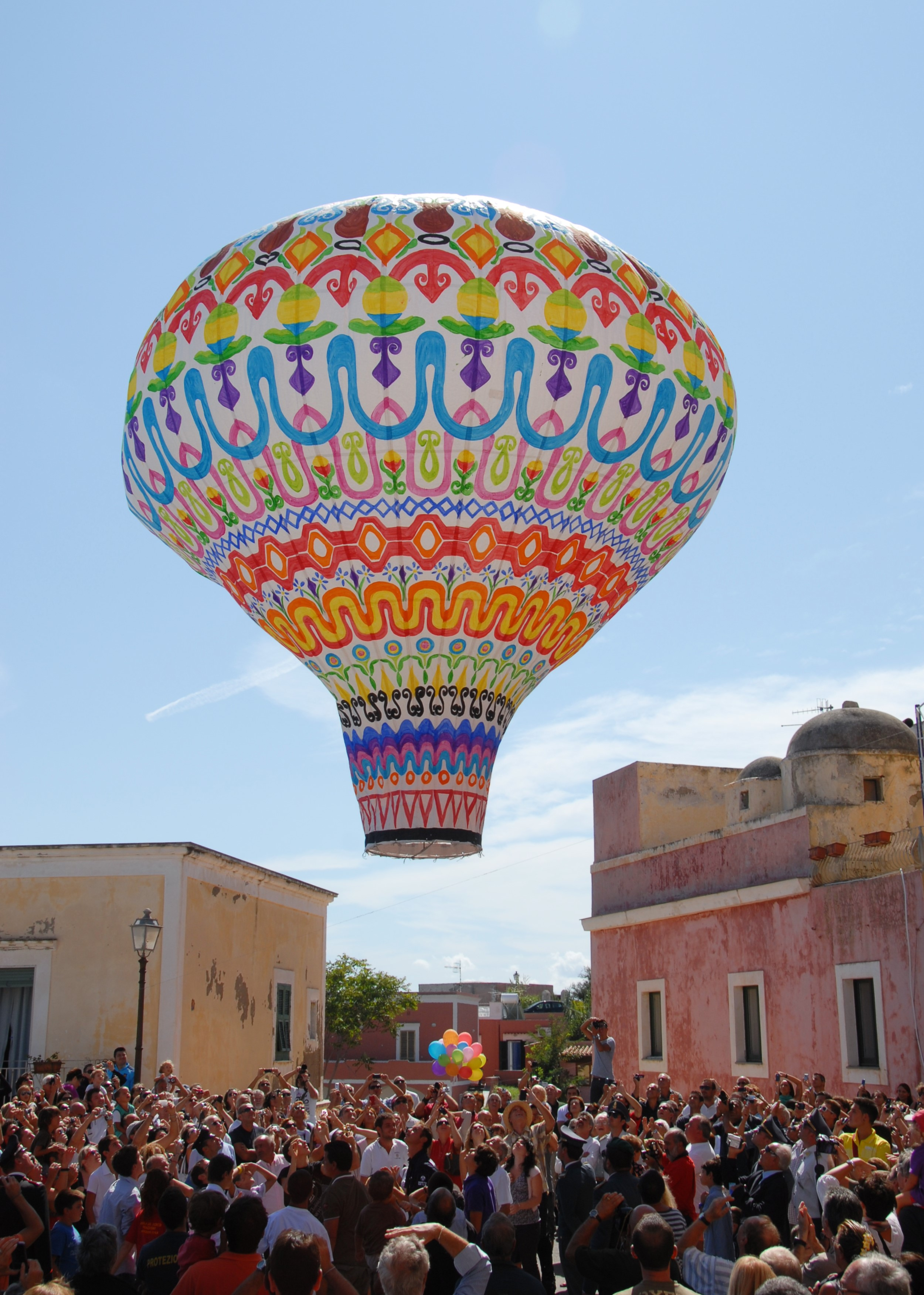 Hot air balloon at the Santa Candida festival on the Island of Ventotene, Italy